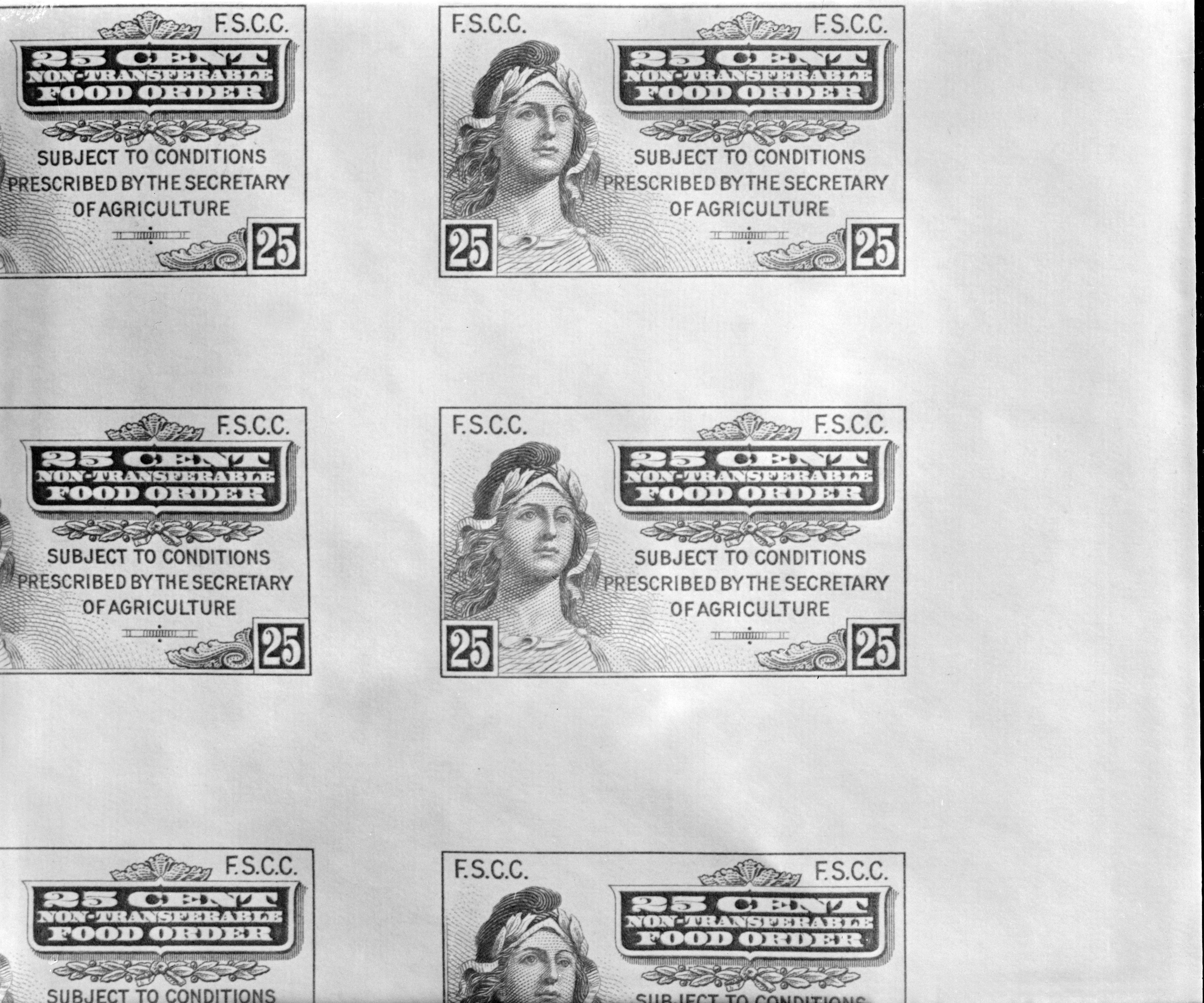 TITLE: First food stamp. Washington, D.C., April 20. The first of the new surplus food stamps came of the presses at the Bureau of Engraving and Printing today. Latest of the administration's plans to reduce the farm surplus, the stamps, of yellow and blue, will be issued to persons on relief who in turn can trade each $1.00 stamp for food worth $1.50. Rochester, New York, will be one of the first half dozen cities to try the new stamp plan CALL NUMBER: LC-H22-D- 6378[P&P] REPRODUCTION NUMBER: LC-DIG-hec-26518 (digital file from original negative) RIGHTS INFORMATION: No known restrictions on publication. MEDIUM: 1 negative : glass ; 4 x 5 in. or smaller CREATED/PUBLISHED: [19]39 April 20. CREATOR: Harris & Ewing, photographer. NOTES: Title from unverified caption data received with the Harris & Ewing Collection. Gift; Harris & Ewing, Inc. 1955. General information about the Harris & Ewing Collection is available at Temp. note: Batch five. SUBJECTS: United States--District of Columbia--Washington (D.C.). FORMAT: Glass negatives. PART OF: Harris & Ewing Collection (Library of Congress) REPOSITORY: Library of Congress Prints and Photographs Division Washington, D.C. 20540 USA DIGITAL ID: (digital file from original negative) hec 26518 CONTROL #: hec2009013216